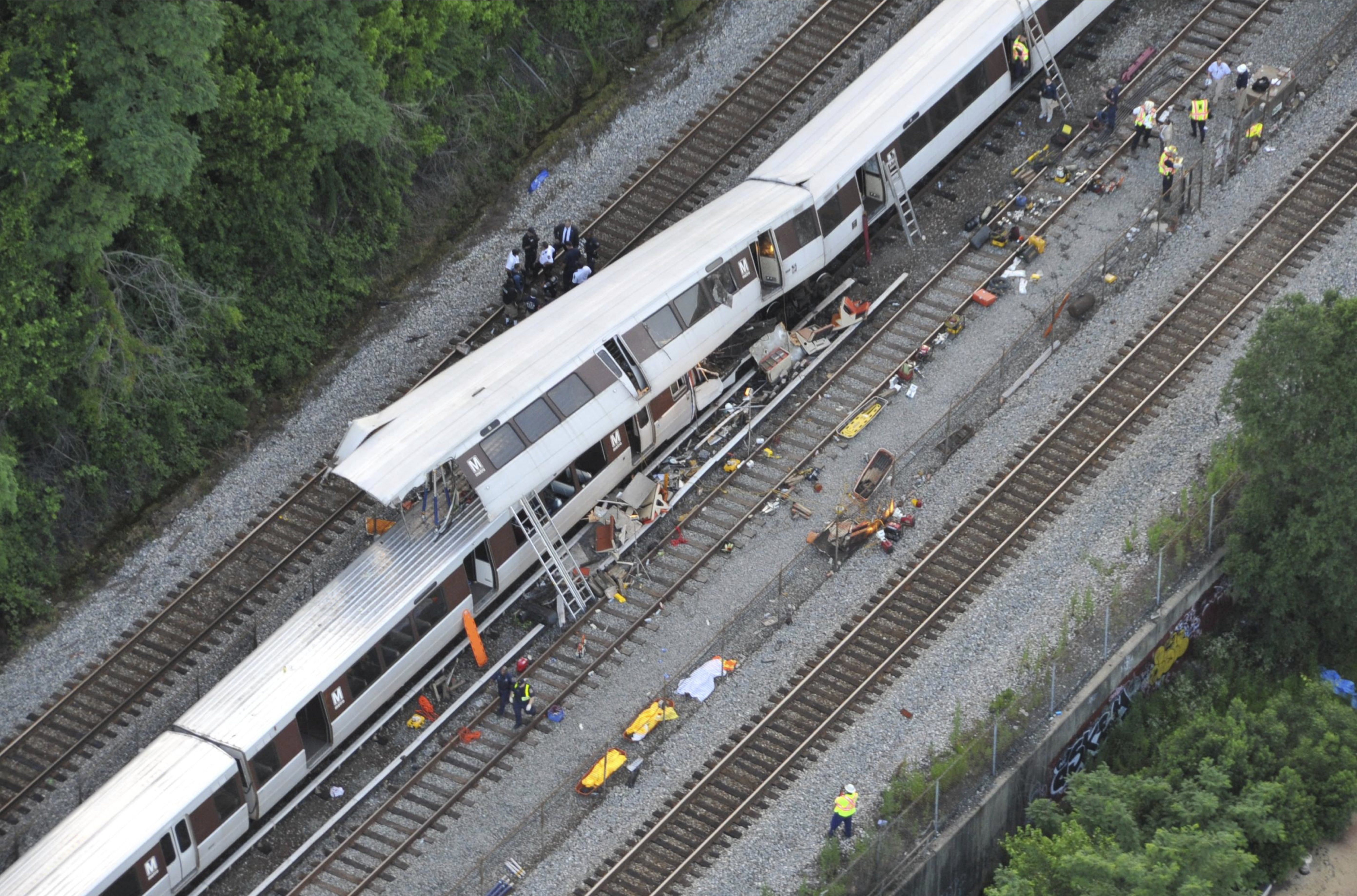 Original caption: Pre-recovery, aerial / oblique view, of the accident site, showing, at center of image, the lead car of Train 112 (car # 1079) which had made contact with the last car of Train 214 (car # 5066), that resulted in the telescoping action of car # 5066 that had passed into the passenger compartment of car # 1079. NTSB Docket Crashworthiness Factual Report – Addendum # 2, Descriptions of Photographs of the Crashworthiness Investigation